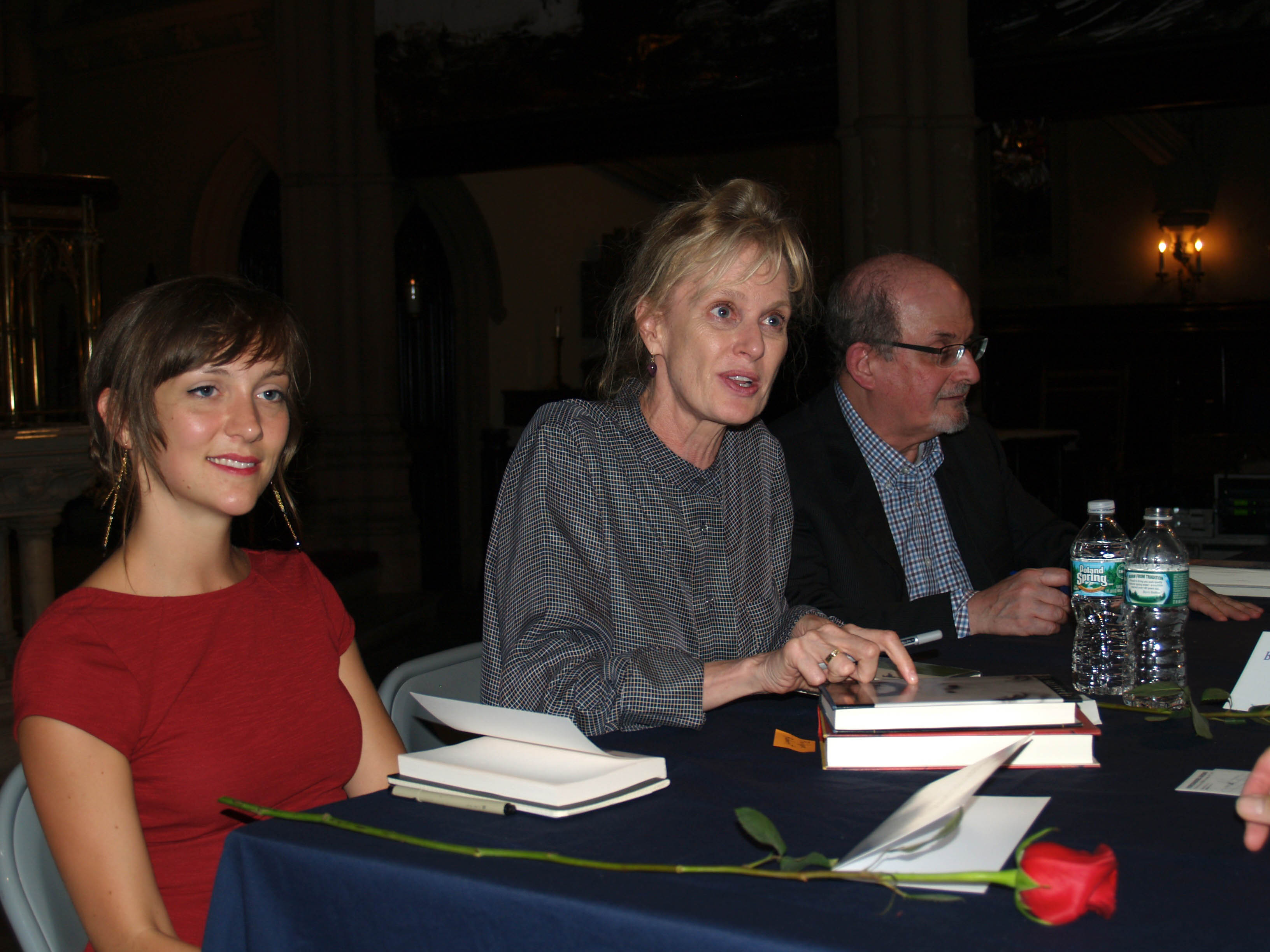 From left to right: Novelist/teacher Catherine Lacey, novelist/essayist Siri Hustvedt, and novelist/essayist Salman Rushdie, following "The Writer's Life" panel at the the 2014 Brooklyn Book Festival. This photo was created by Luigi Novi. It is not in the public domain, and use of this file outside of the licensing terms is a copyright violation.